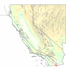 Map of Laguna Salada fault from the USGS